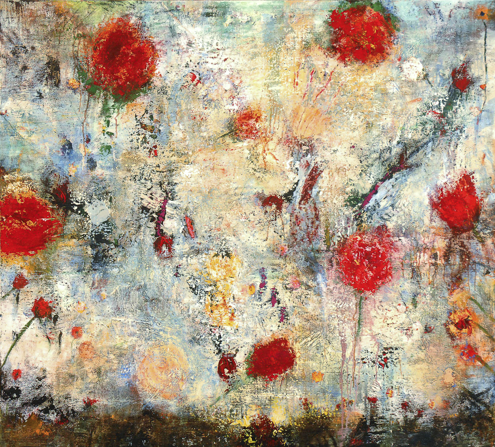 Painting by Adam Shaw